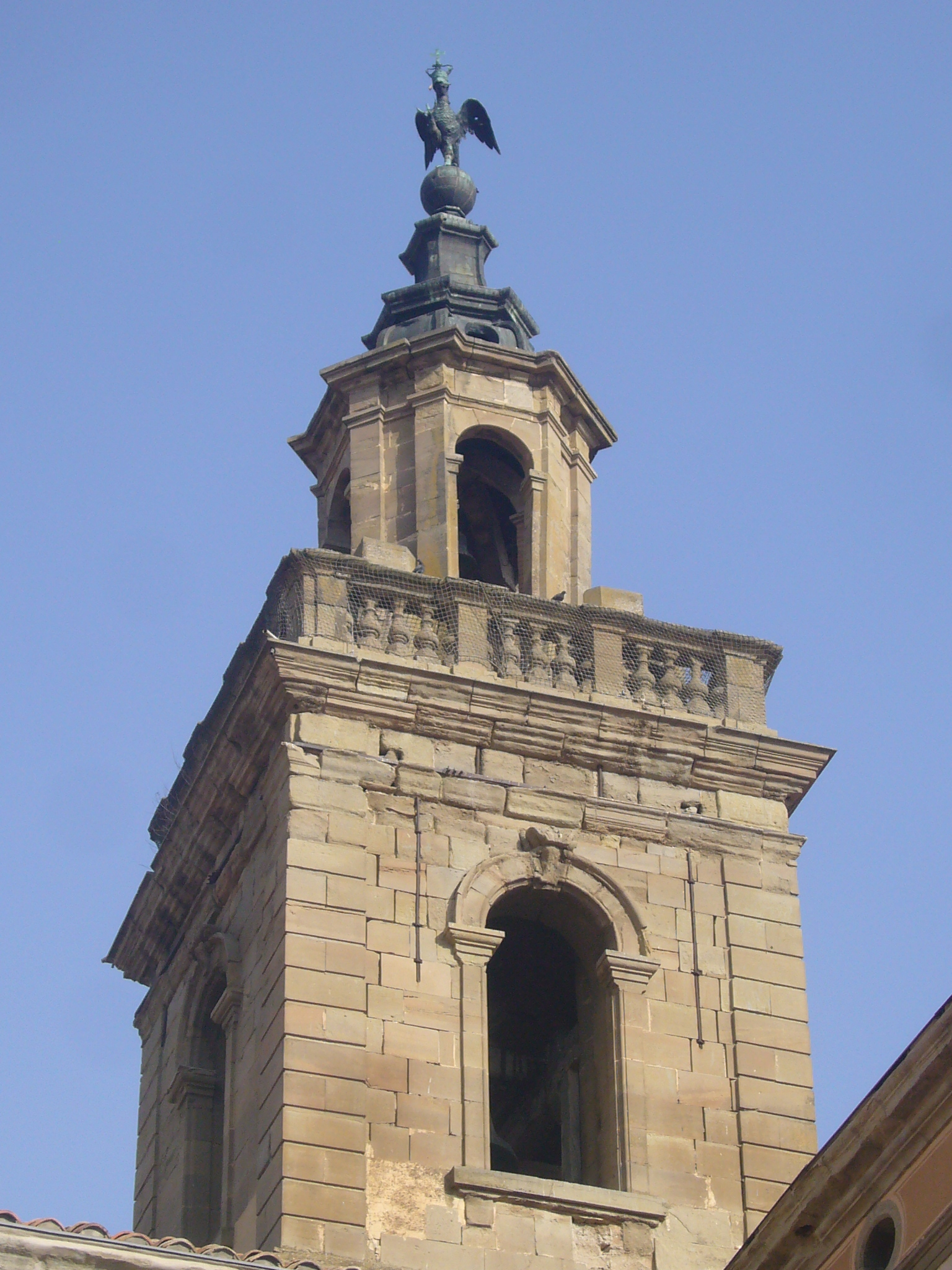 Universitat de Cervera